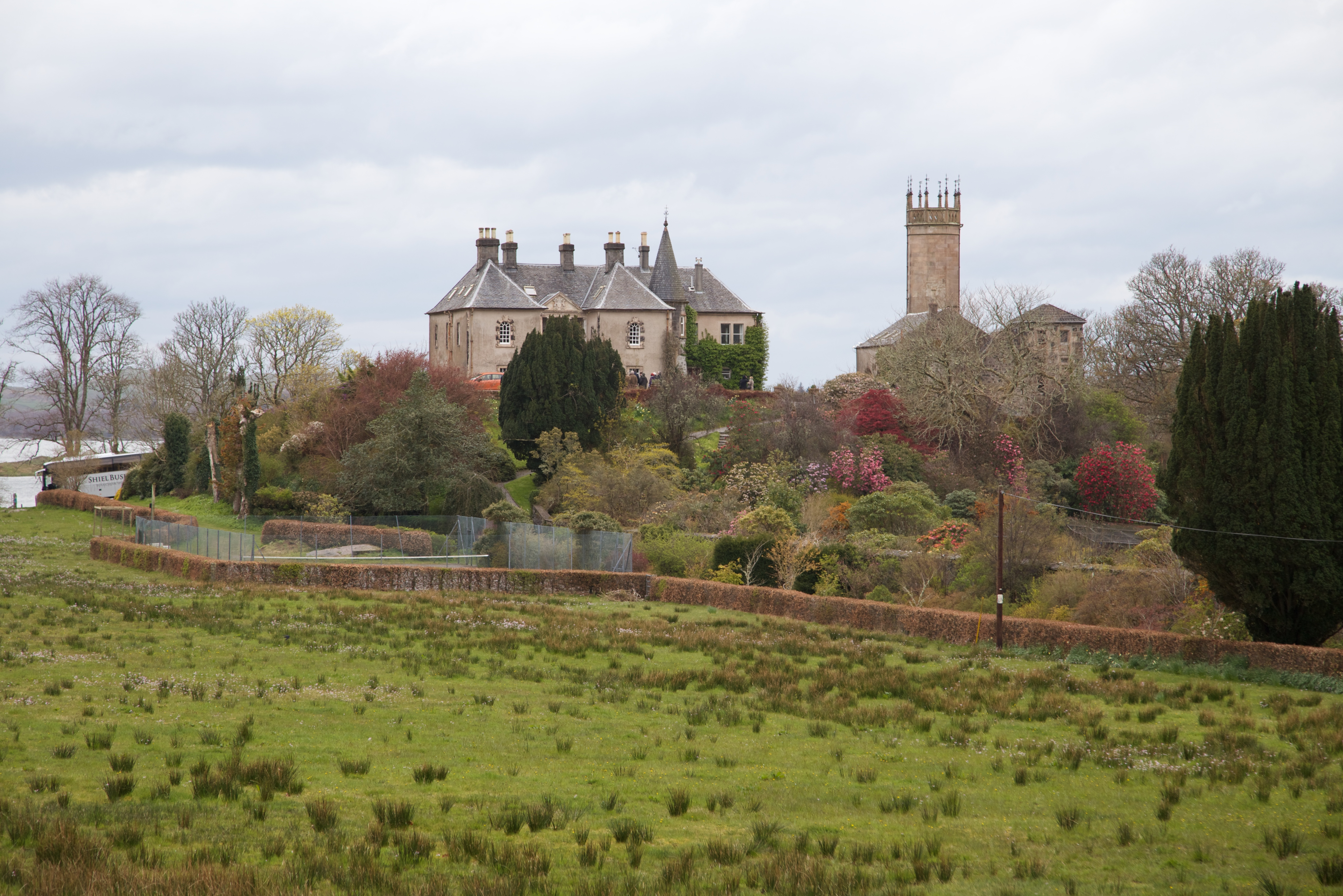 Ardmaddy Castle Wikidata has entry Q17779482 with data related to this item.